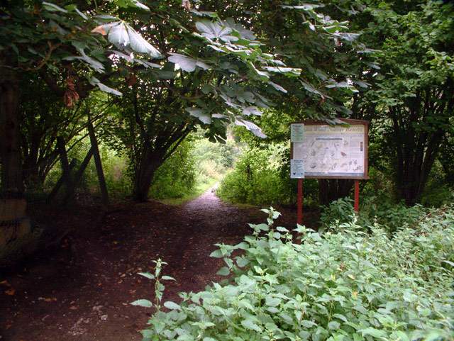 Selsdon Wood Nature Reserve — Croydon. The 200-acre Selsdon Wood is owned by The National Trust, and managed by the London Borough of Croydon. The photo shows the eastern entrance and footpath, from the end of Courtwood Lane. The public footpath forms part of the London Loop (London Outer Orbital Path), a country walk set within London boundaries, which takes walkers along country paths.